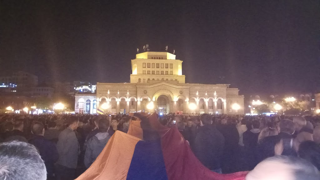 Protest Demonstrations, Republic Square